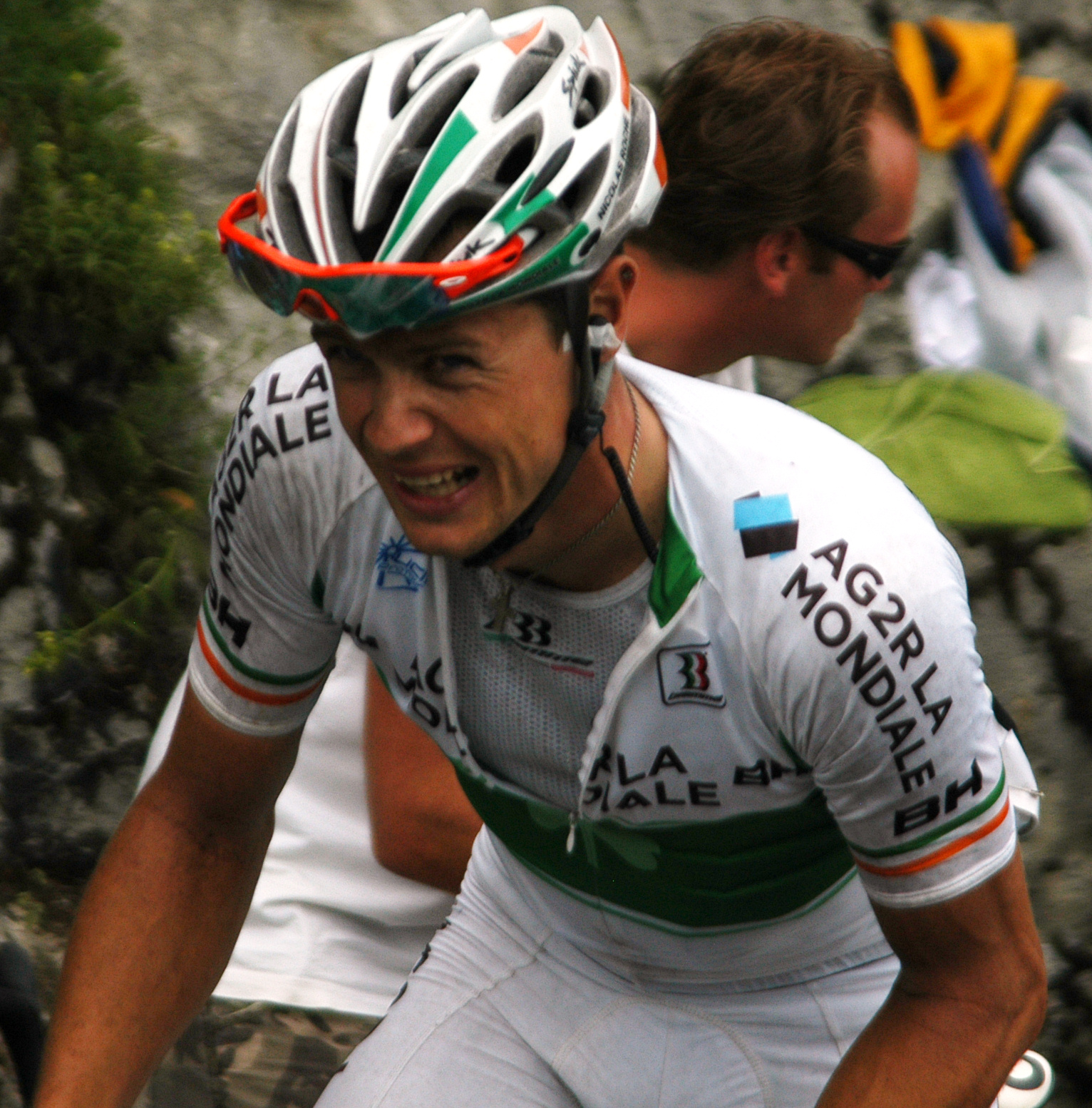 Nicolas Roche (IRE) at stage 17 of the 2009 Tour de France on the Col de la Colombière.